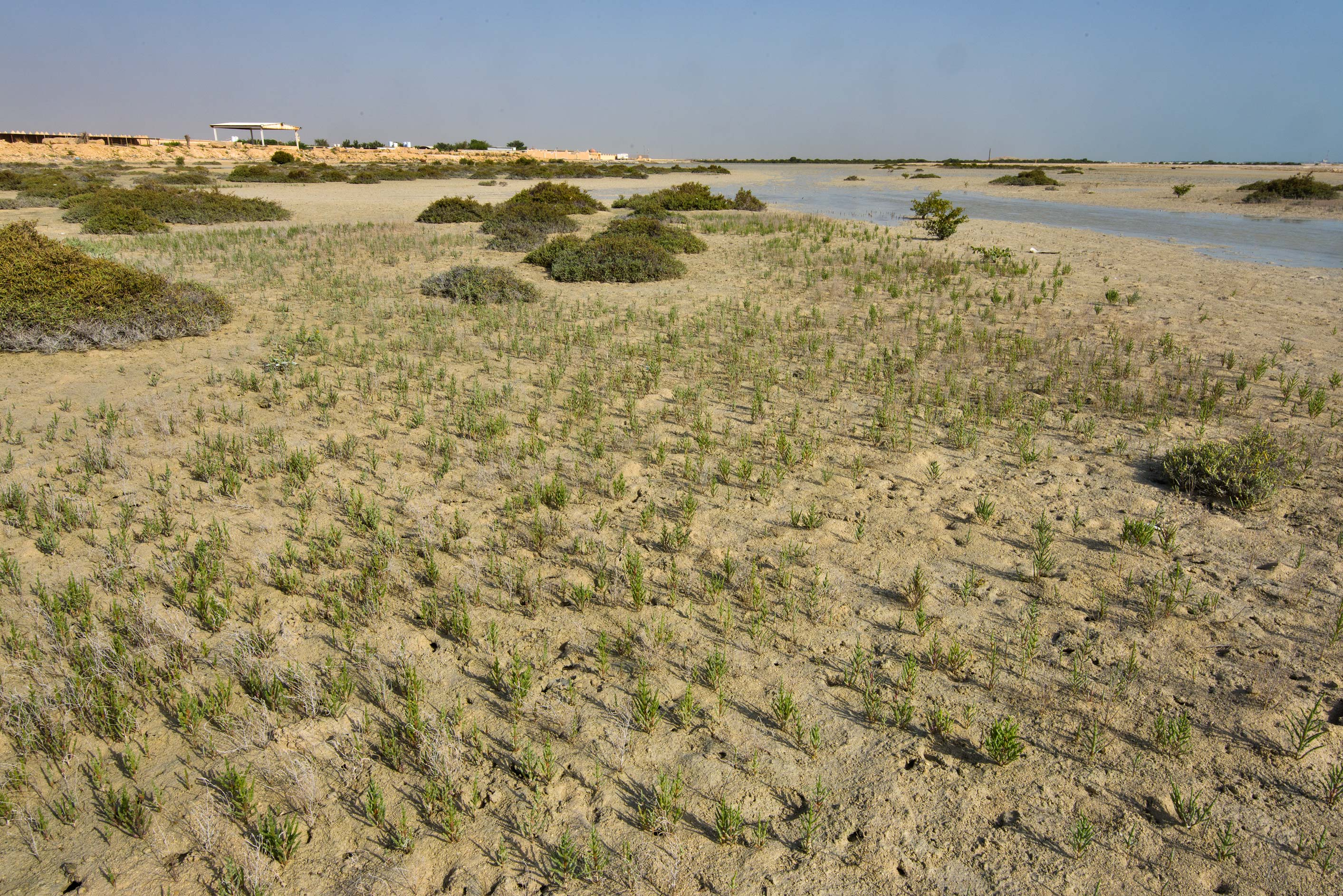 A view of a beach near Fuwayrit, northern Qatar.